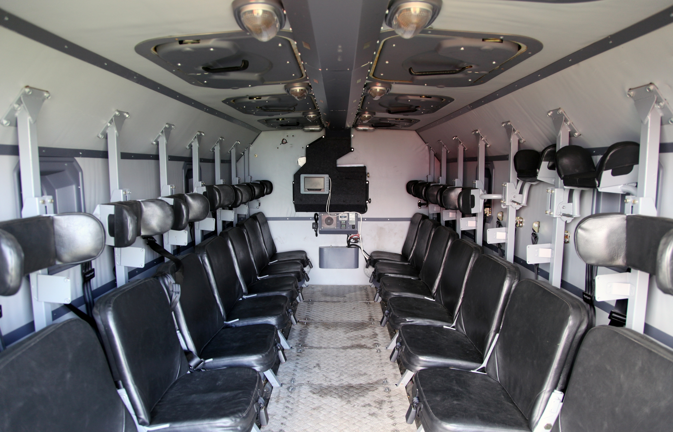 KamAZ-63968 Typhoon at the exhibition Engineering technologies 2012.